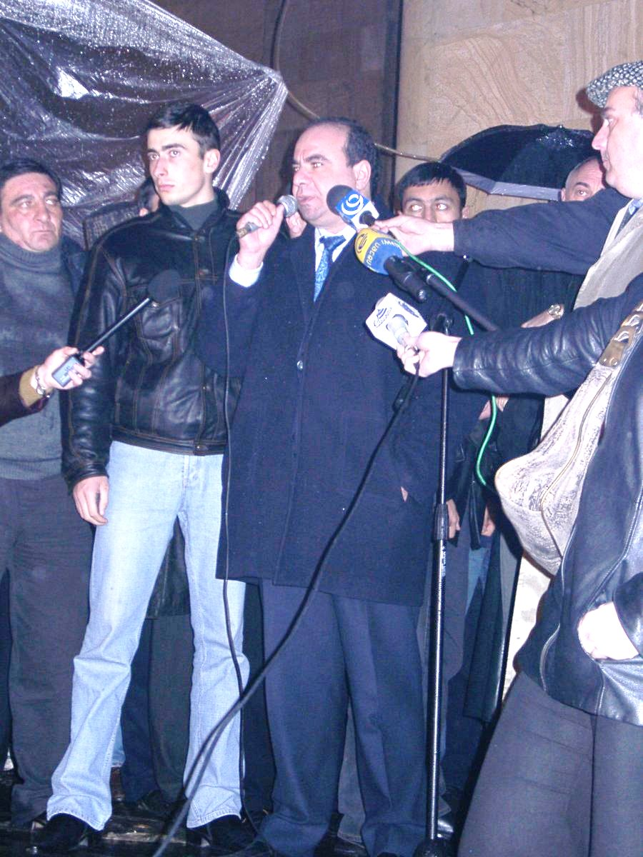 Tbilisi. Rose Revolution 2003. Zurab Zhvania, one of the oposition lider